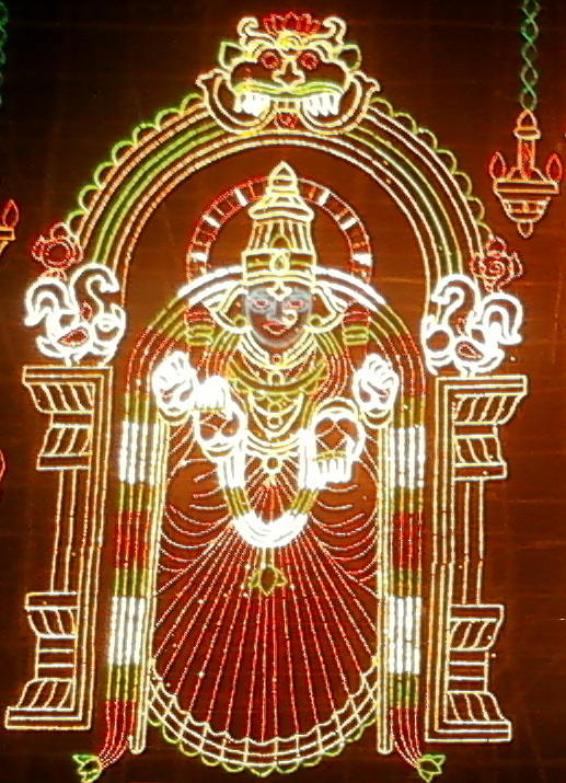 Light settings of Hindu Gods at an Festival occasion at Maddilapalem in Visakhapatnam